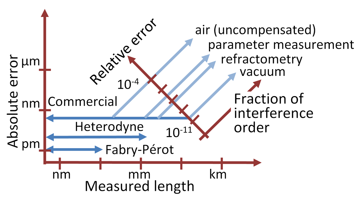 Chart of interferometer accuracy vs. length measured. Patterned after Handbook of Laser Technology and Applications: Applications Webb & Jones p. 1741